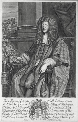 Anthony Ashley-Cooper, 1st Earl of Shaftesbury (1621-1693)